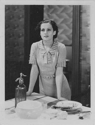 Delia Durruty- actriz